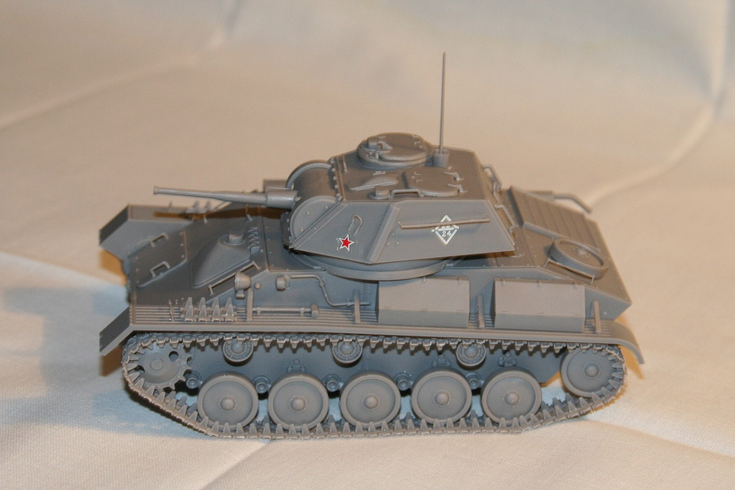 The scale non-painted model of T-80 light tank by Crimean Producer «MiniArt»